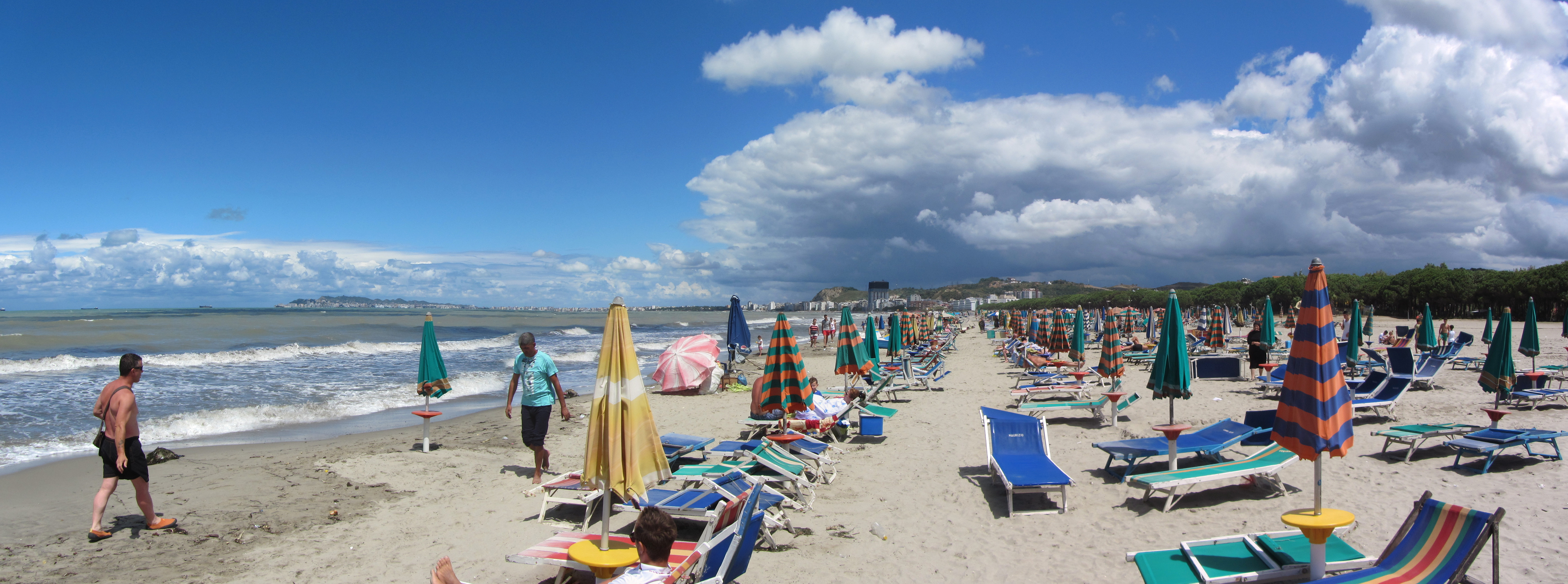 Public Beach Golem Albania